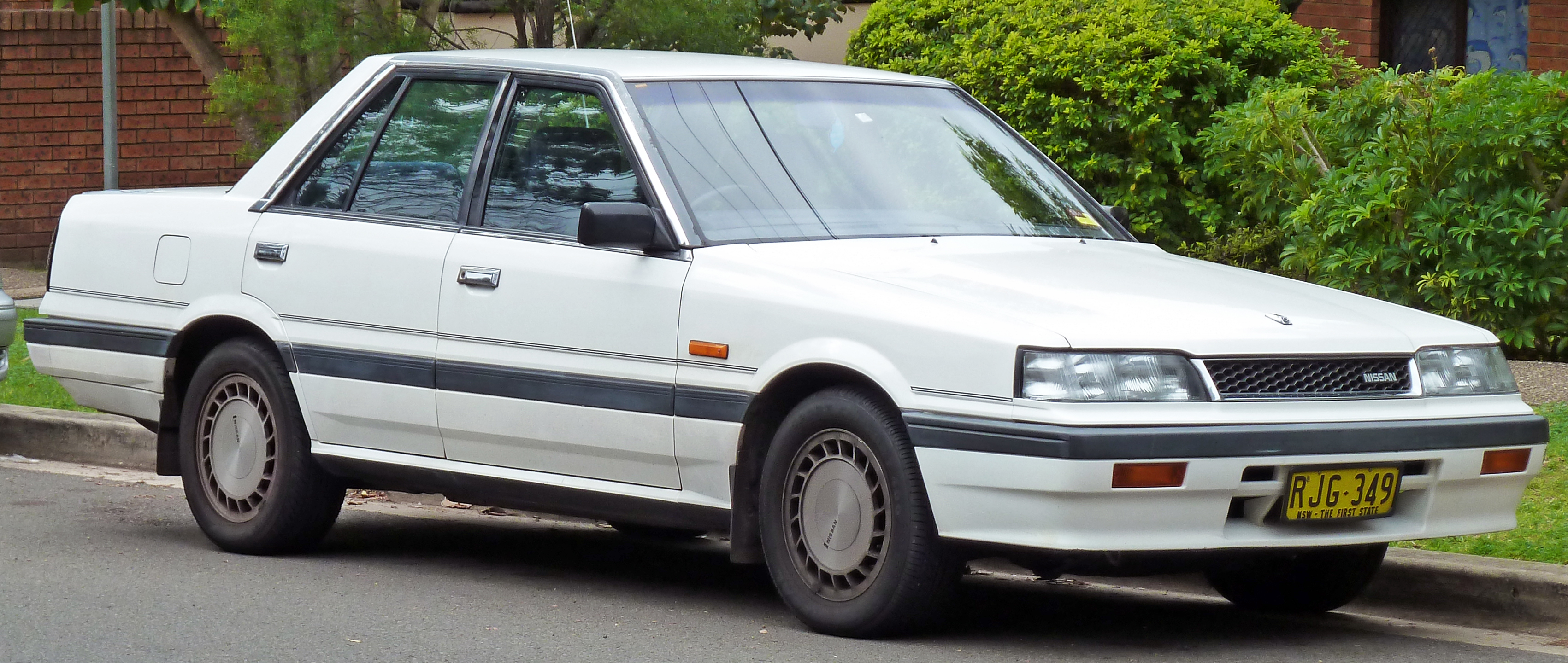 1990 Nissan Skyline (R31) Ti sedan. Photographed in Gymea, New South Wales, Australia.